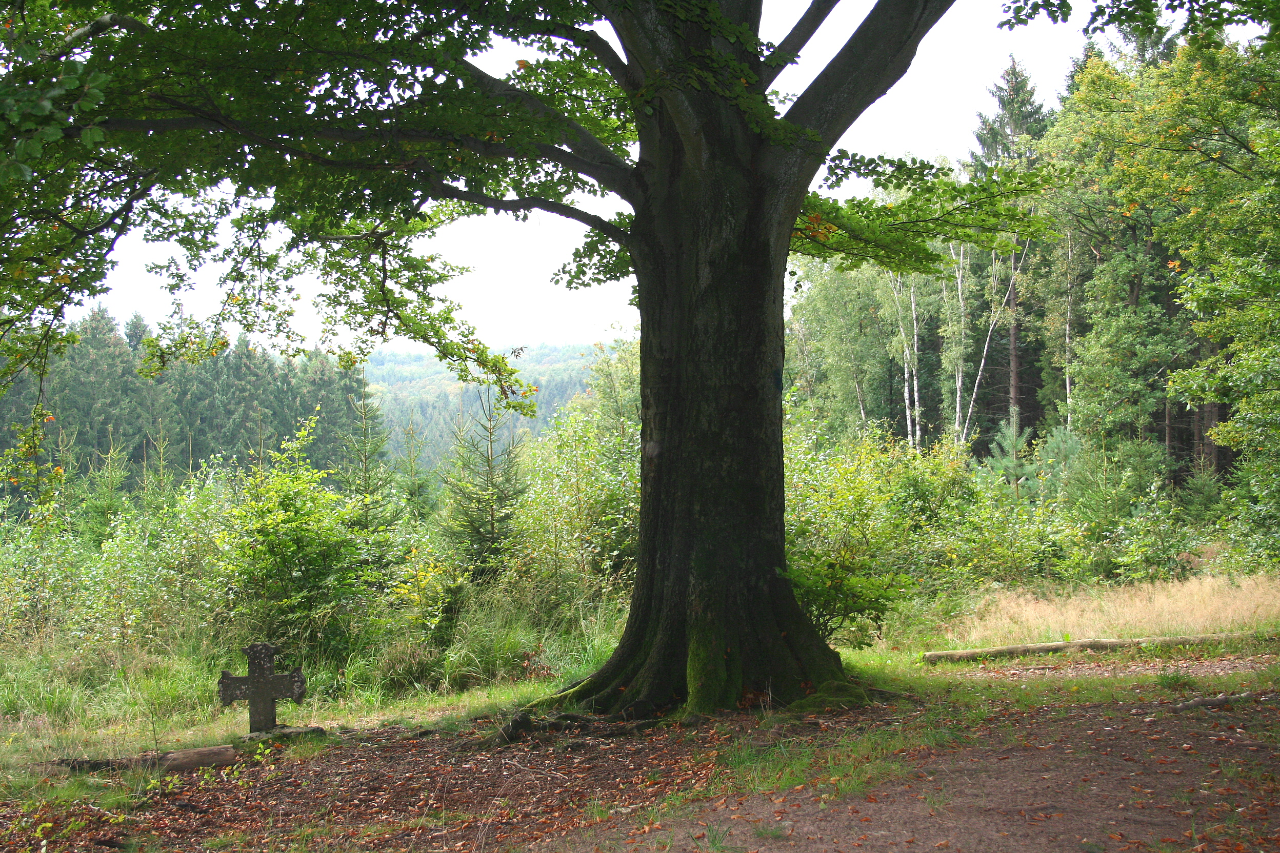 European beech